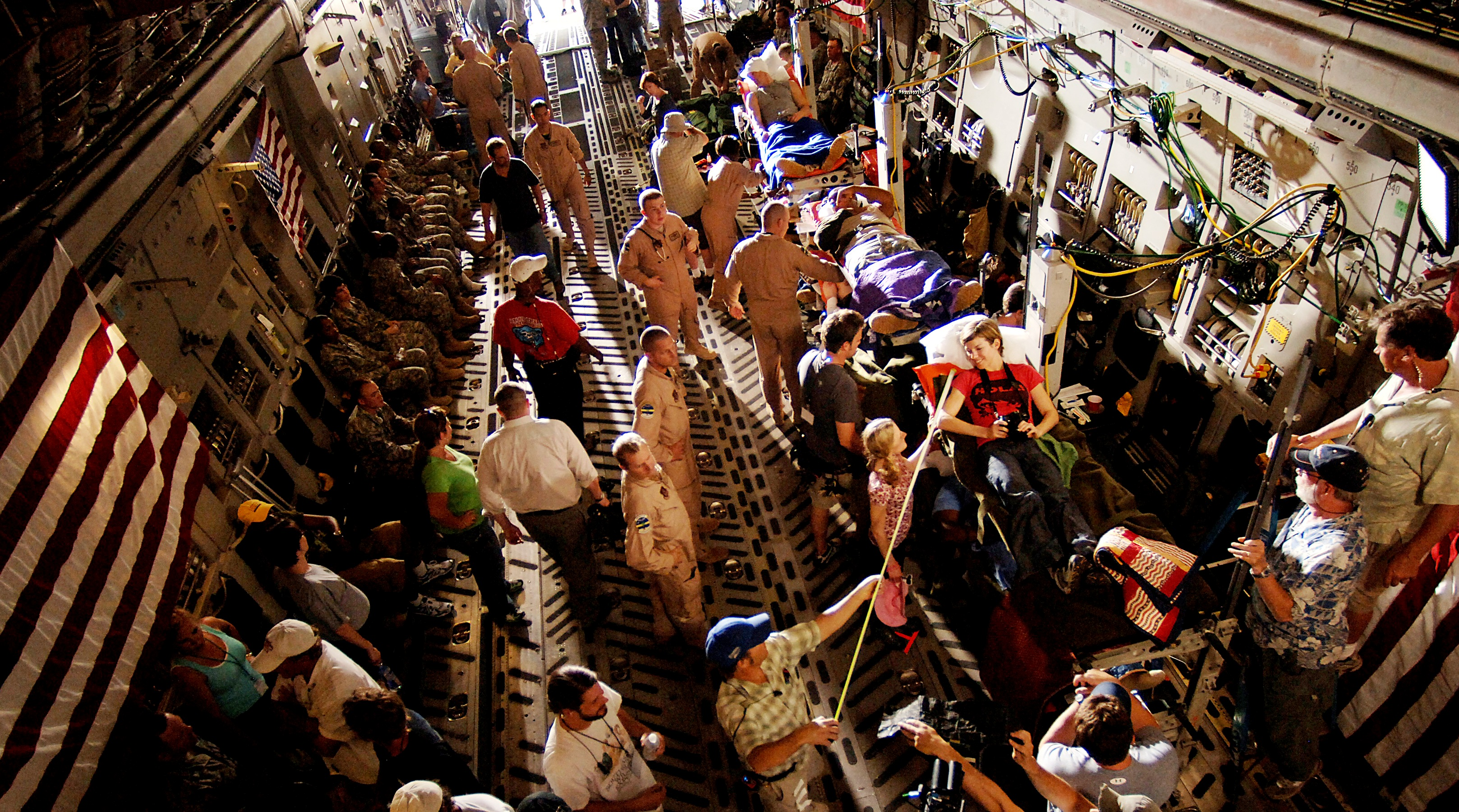 The cast and crew prepare to film a scene for the Lifetime TV drama, "Army Wives" during filming on the Charleston AFB flightline May 5. As a Defense Department-approved show, "Army Wives" is allowed to film episodes on the base.